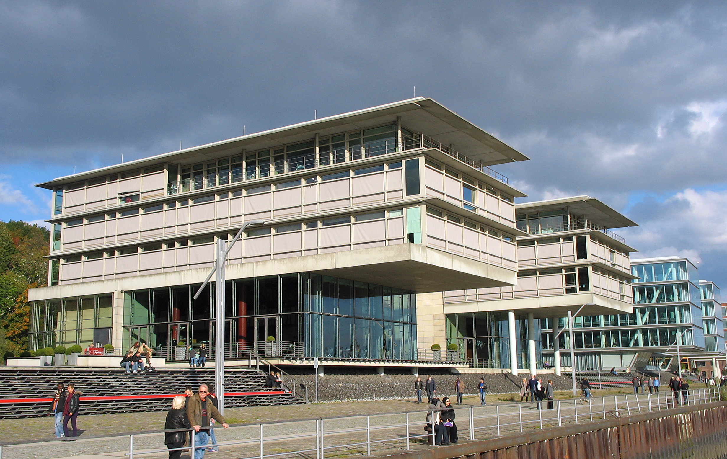 Hamburg, Neumühlen 17 - the headquaters of Edel Music, Kontor Records and some other companies